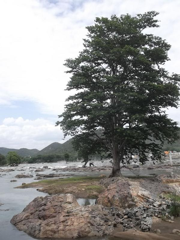 Terminalia arjuna tree at the Hogenakkal Falls in Dharmapuri district, Tamil Nadu, India.